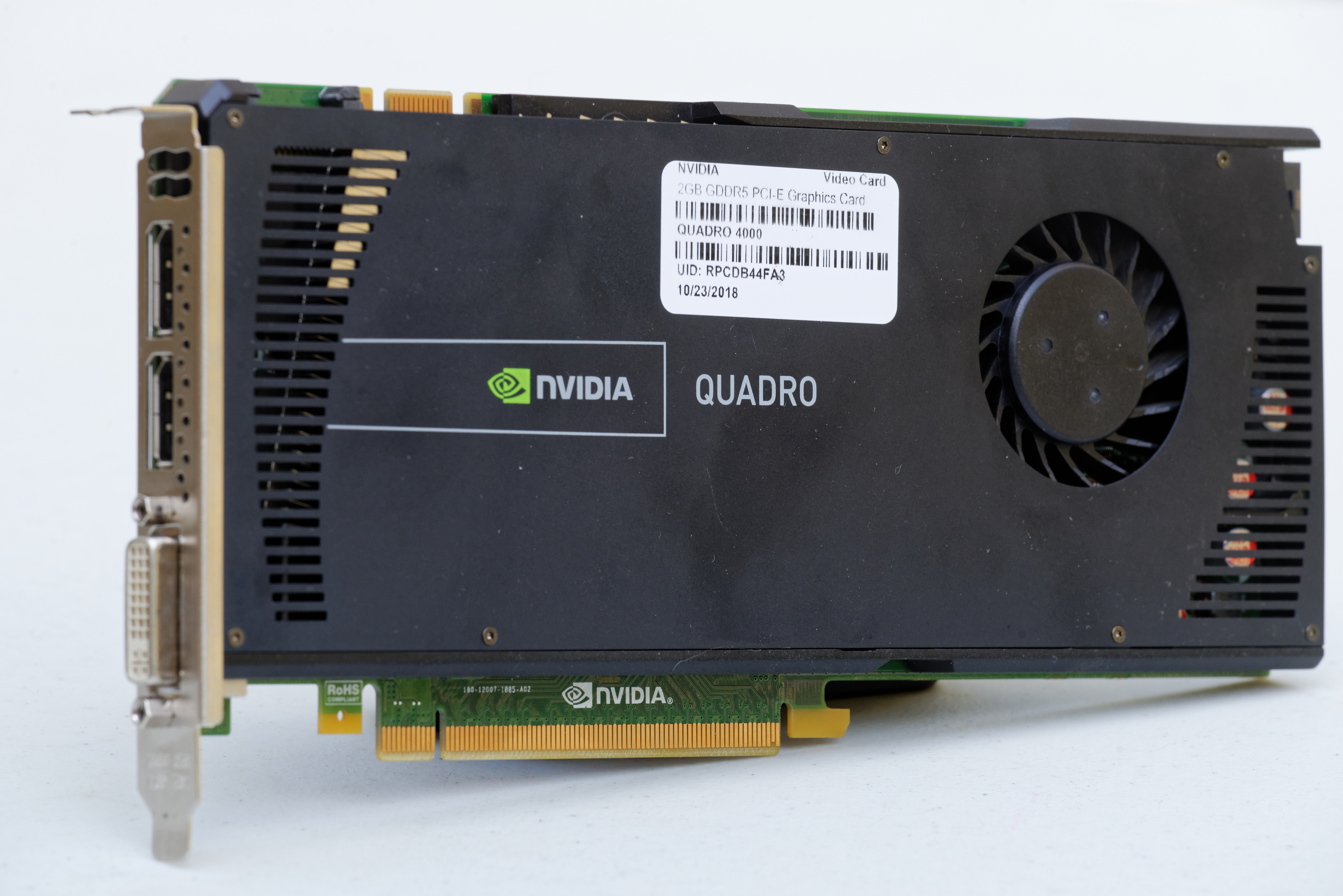 Nvidia Quadro 4000 video card